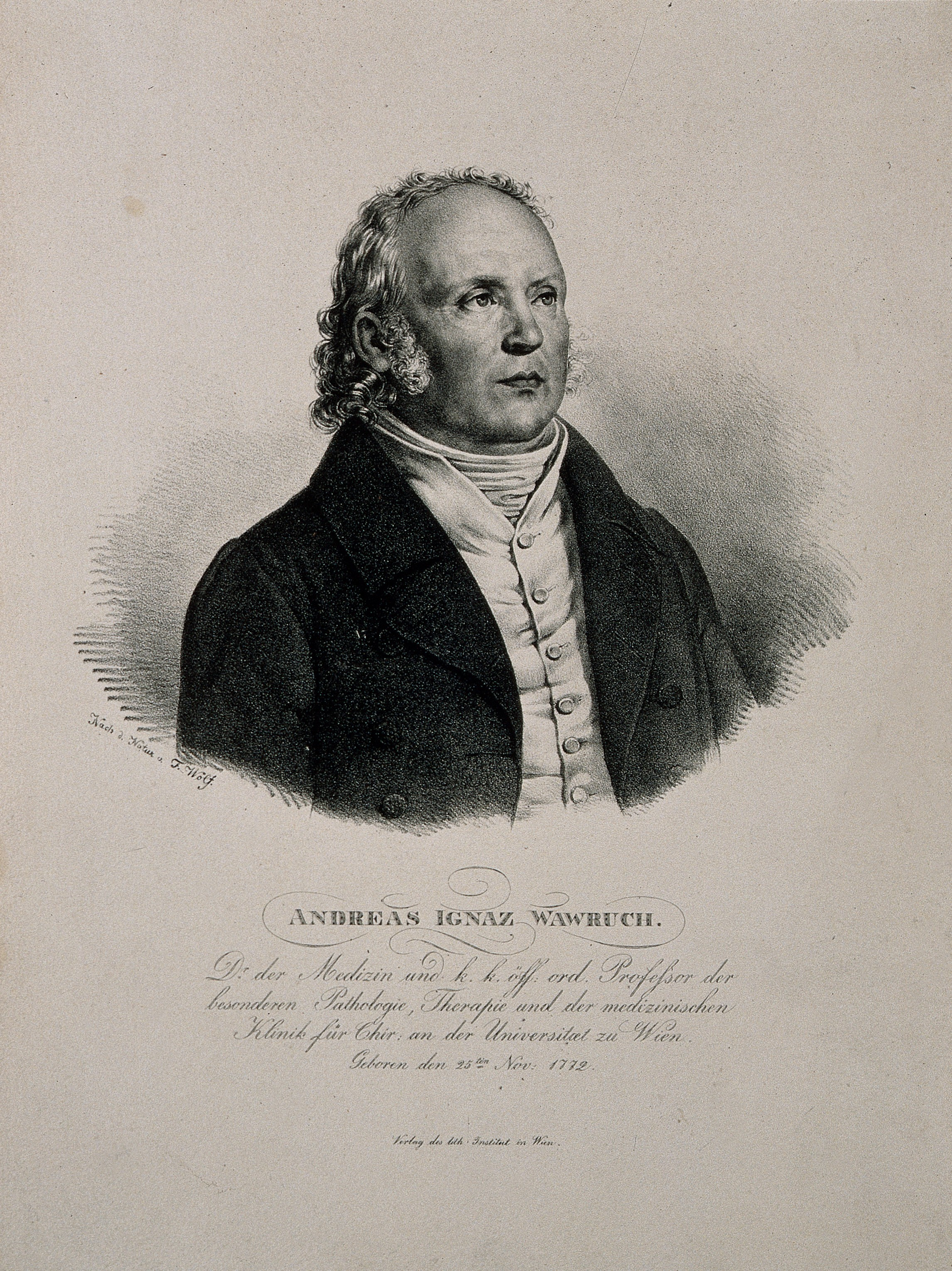 Genre/Technique: Portrait prints. Lithographs. Suject name: Wawruch, Andreas Ignaz, 1782-1842.